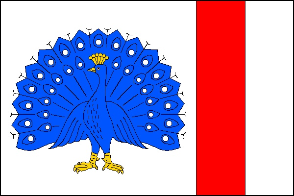 Municipal flag of Bedihošť village, Prostějov District, Czech Republic.